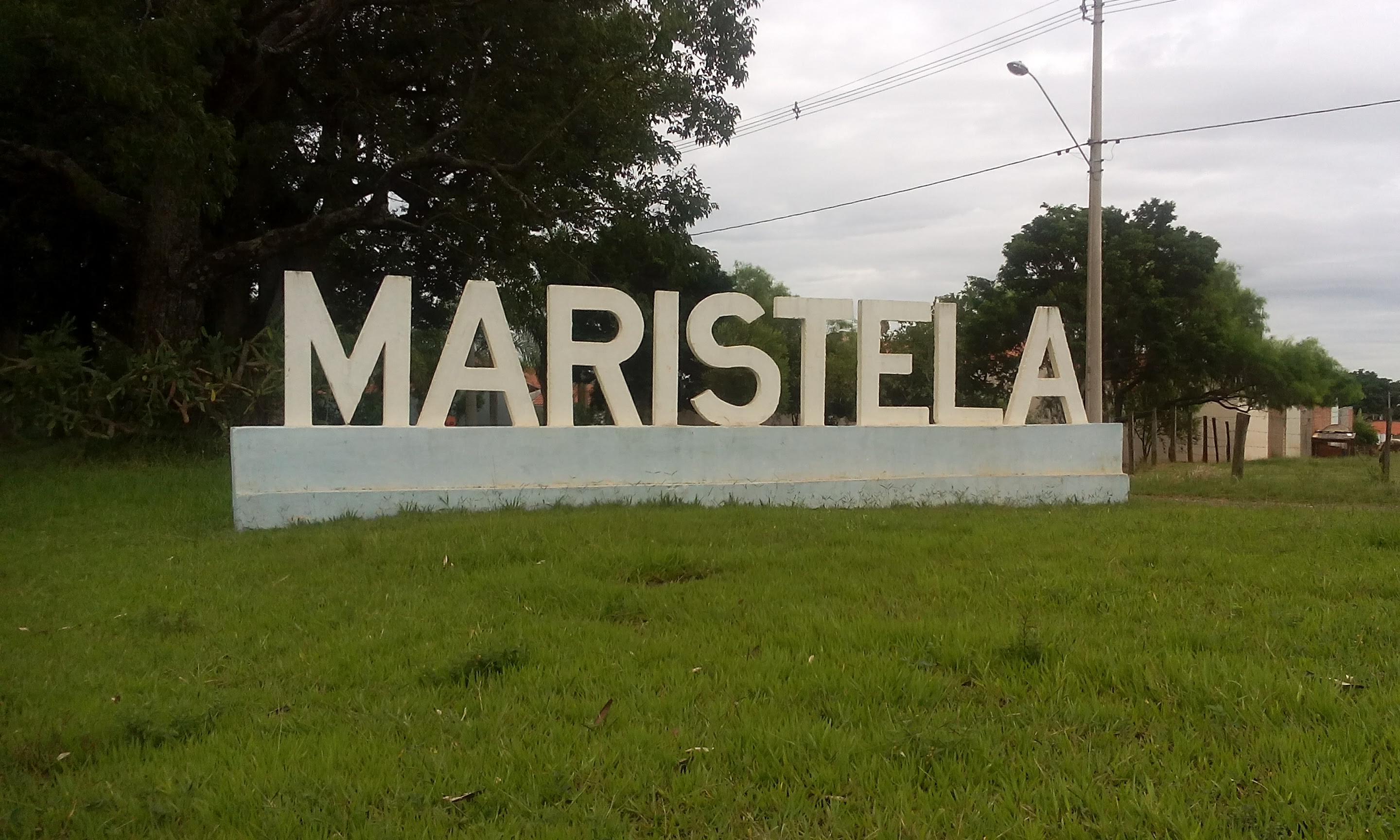 Village limit sign in Maristela, Laranjal Paulista, at Rodovia Marechal Rondon.